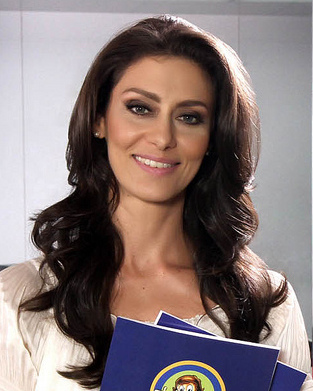 The actress Maria Fernanda Cândido.